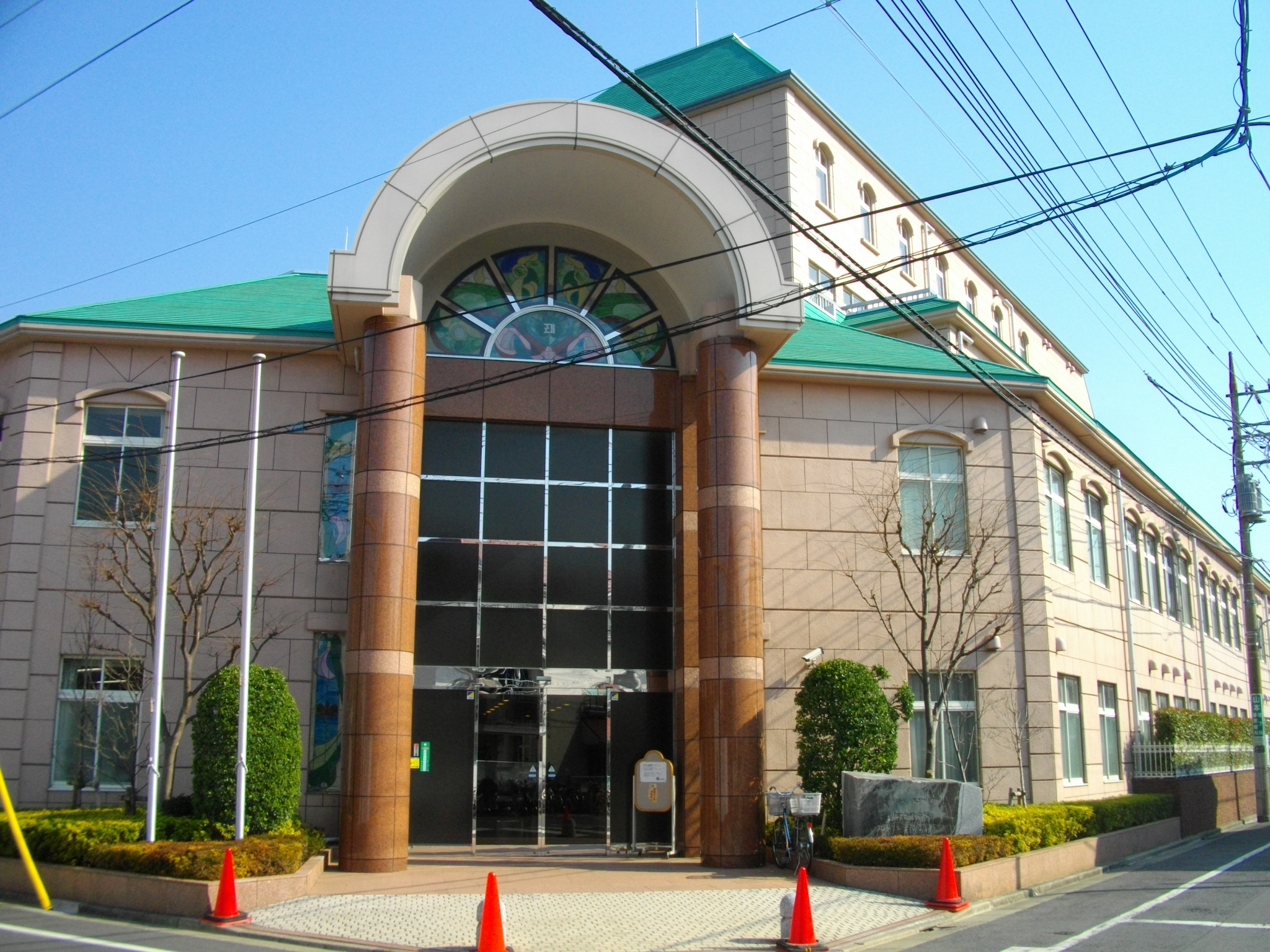 Edogawa Girls' Junior & Senior High School